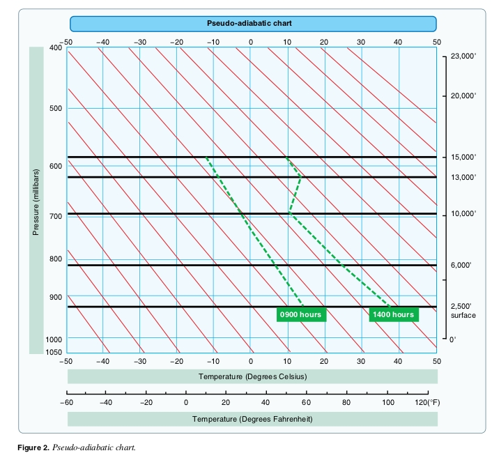 Pseudo adiabatic chart used in the testing supplement for CFIG